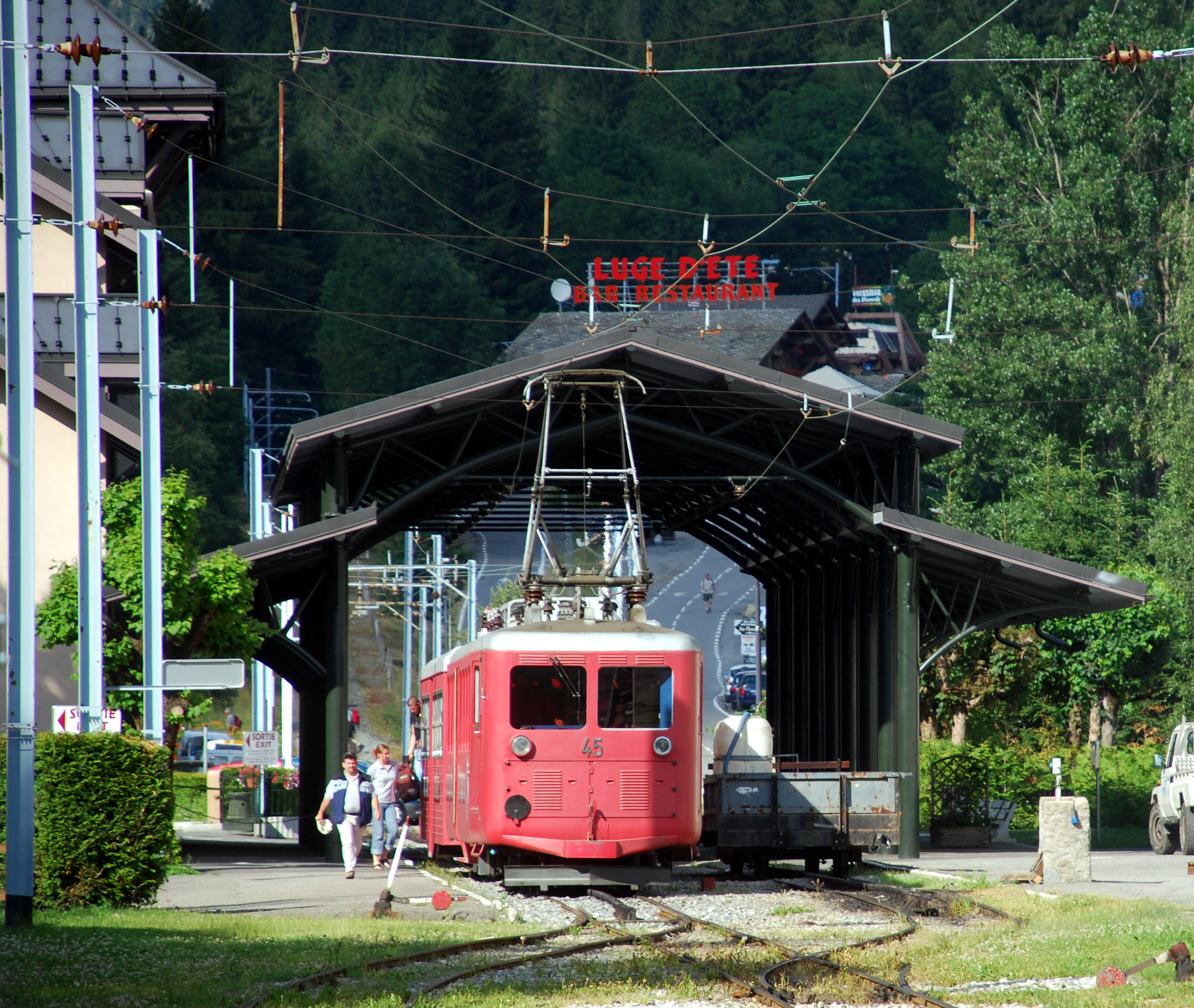 Montenvers railway: platforms at Chamonix.